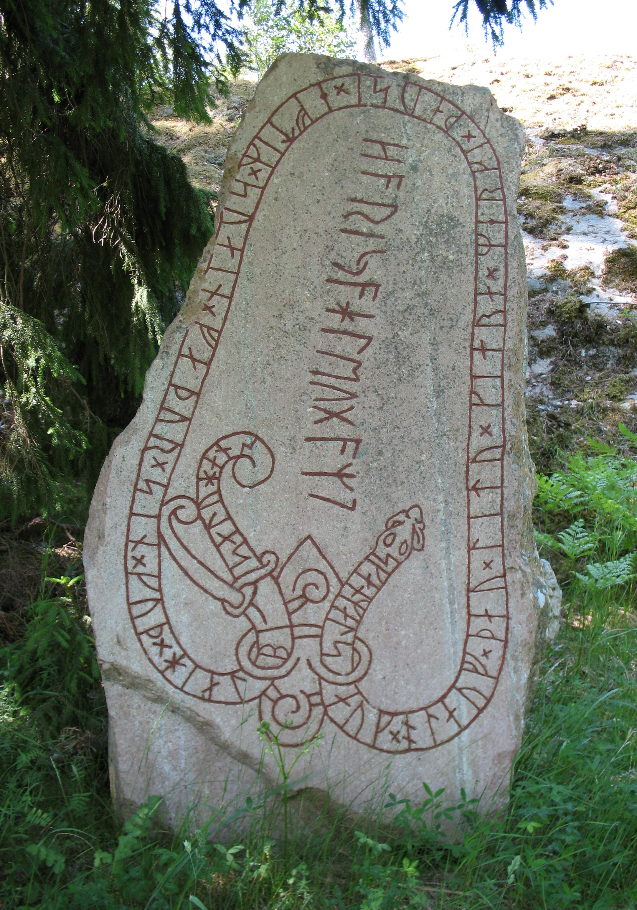 Runestone Sö 32 in Skåäng, Trosa municipality, Sweden.